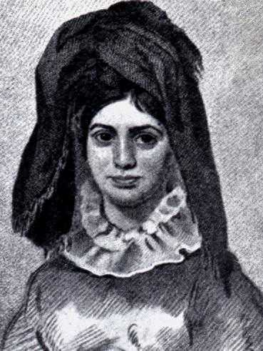 Princess Caraboo, i.e., a cobbler's daughter, Mary Baker (née Willcocks) from Witheridge, Devon (1791-1865), a noted British imposter, who went by the name Princess Caraboo from the island of Javasu in the Indian Ocean.